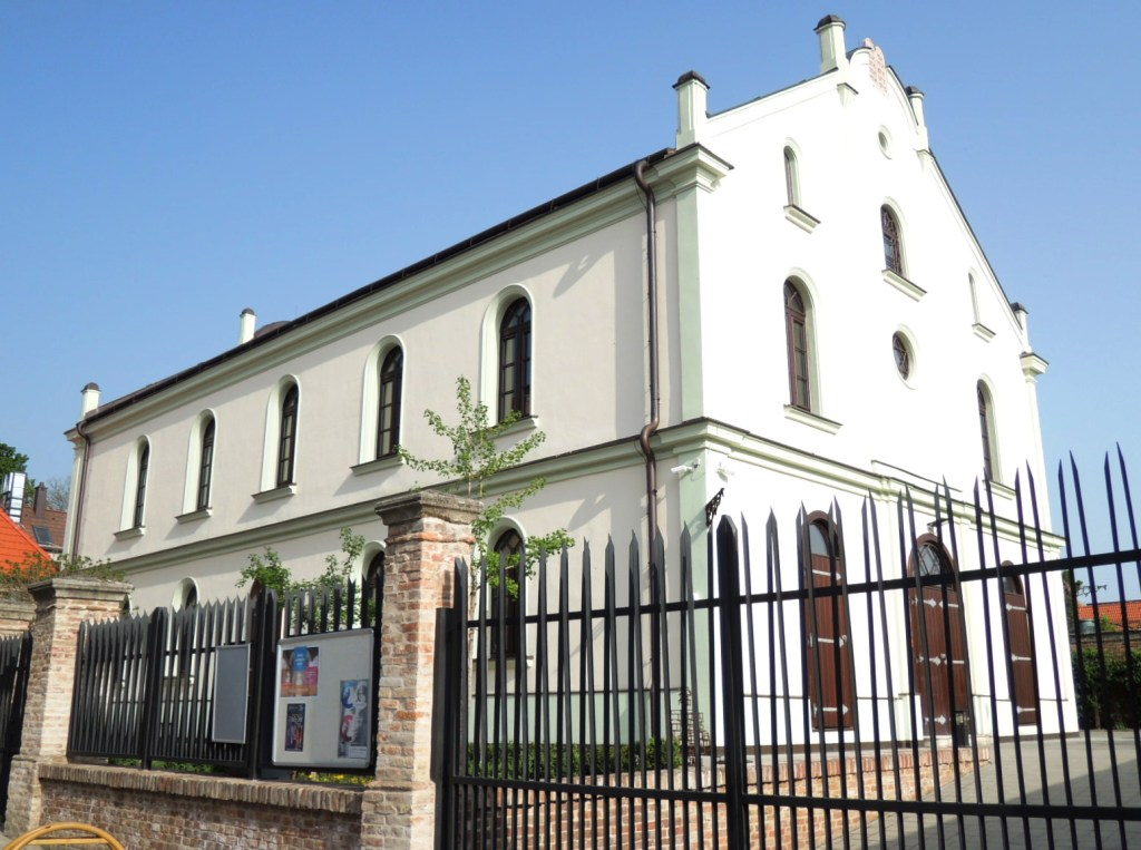 Trnava, New synagogue